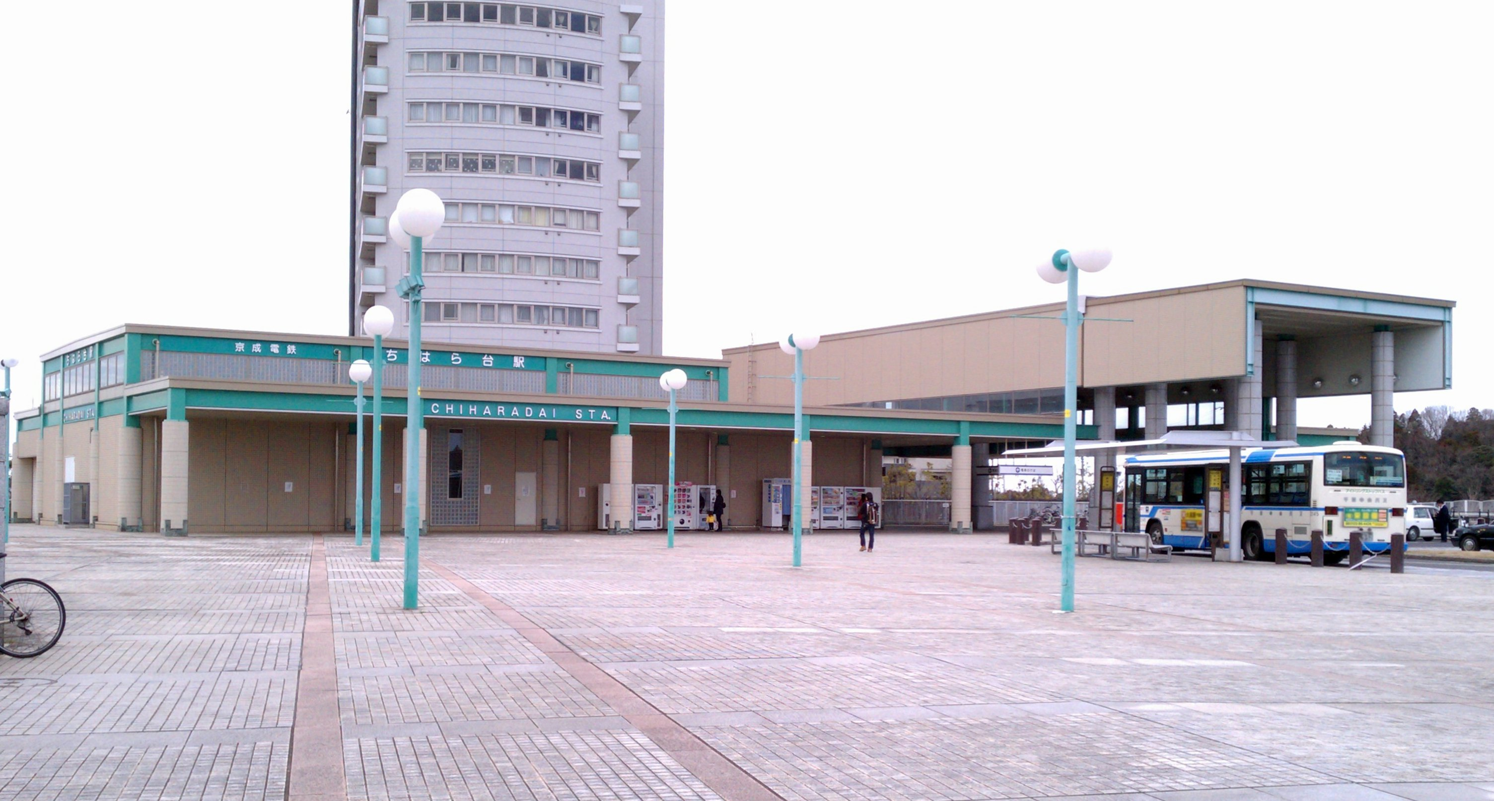 Keisei Chihara Line Chiharadai Staiton